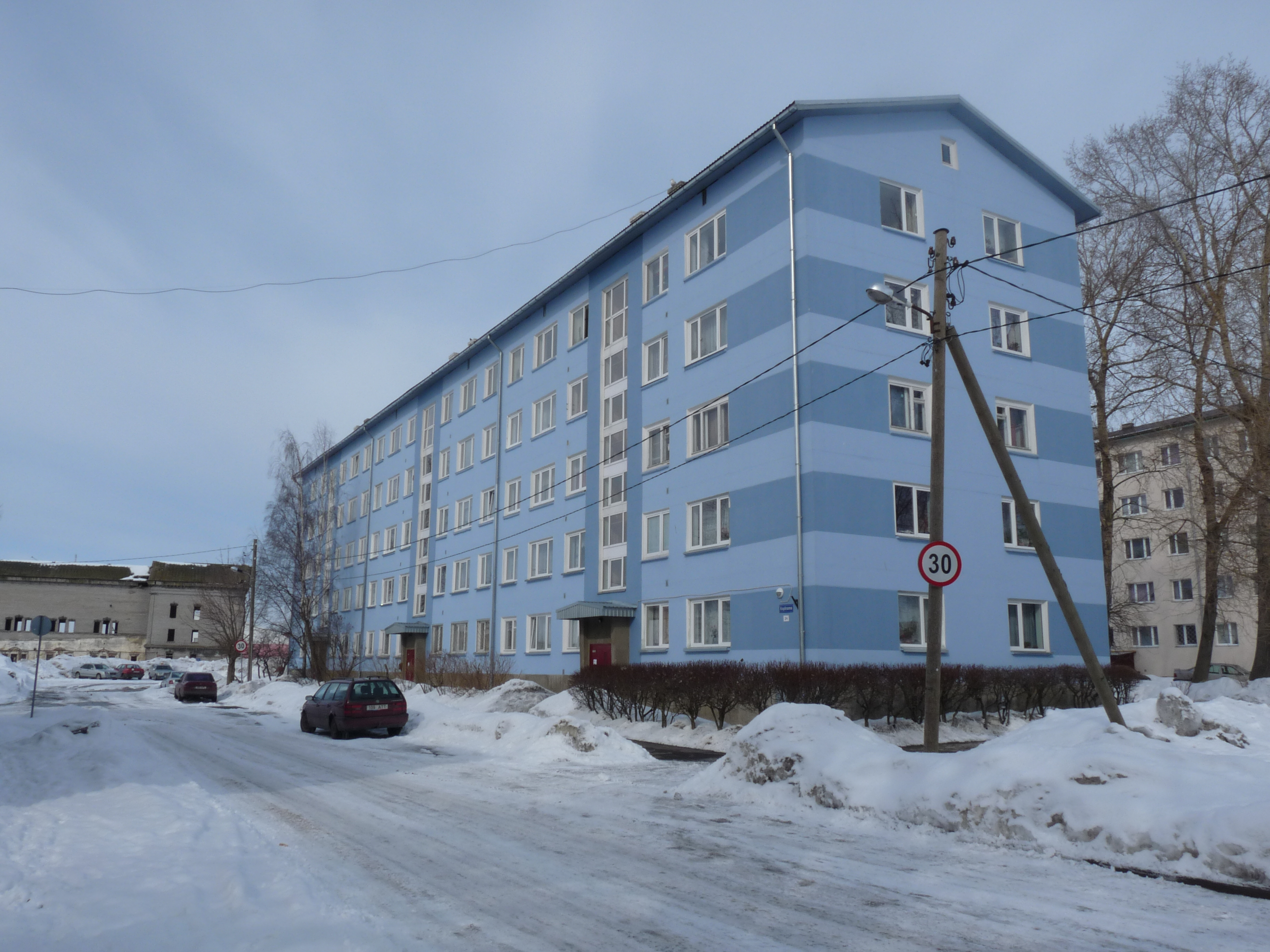 Kopliranna 24